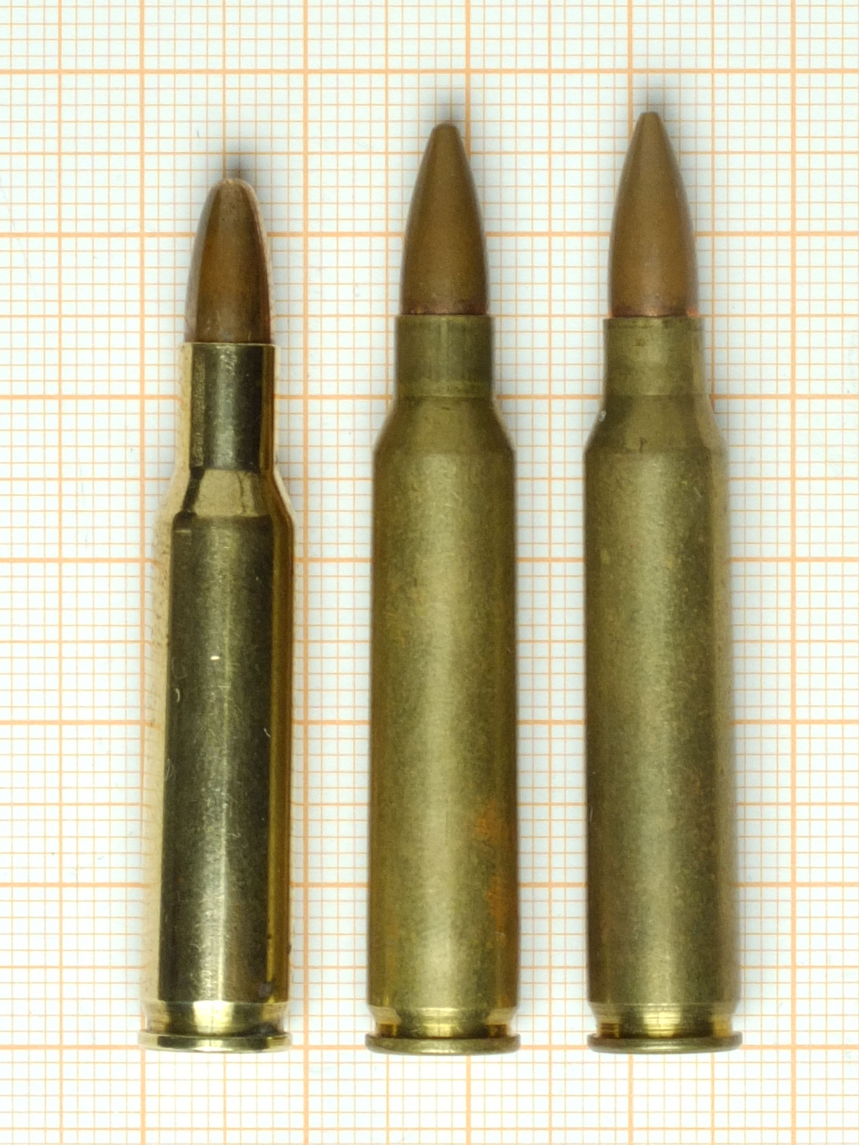 Cartridges .222 Remington, .223 Remington & 5.56x45mm NATO